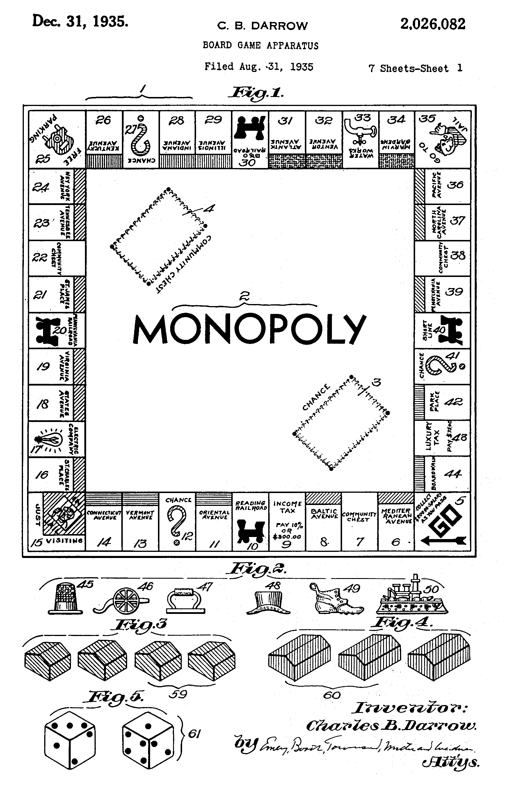 Page one of the U.S. Patent and Trademark Office filing by Charles Darrow for a patent on the board game Monopoly, filed and granted in February 6 1935. Original image available online at the U.S. Patent and Trademark Office, converted to PNG by John D. Buell. Please note that Parker Brothers/Hasbro still hold trademarks on specific design elements of the game, including but not limited to the general game board design, the locomotive silhouettes, the question mark design for "Chance" spaces, the car on "Free Parking", the "Jake the Jailbird" design, and the police officer on "Go to Jail."